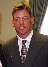 Troy Aikman, american football quarterback, during his visit at the House of Representatives.